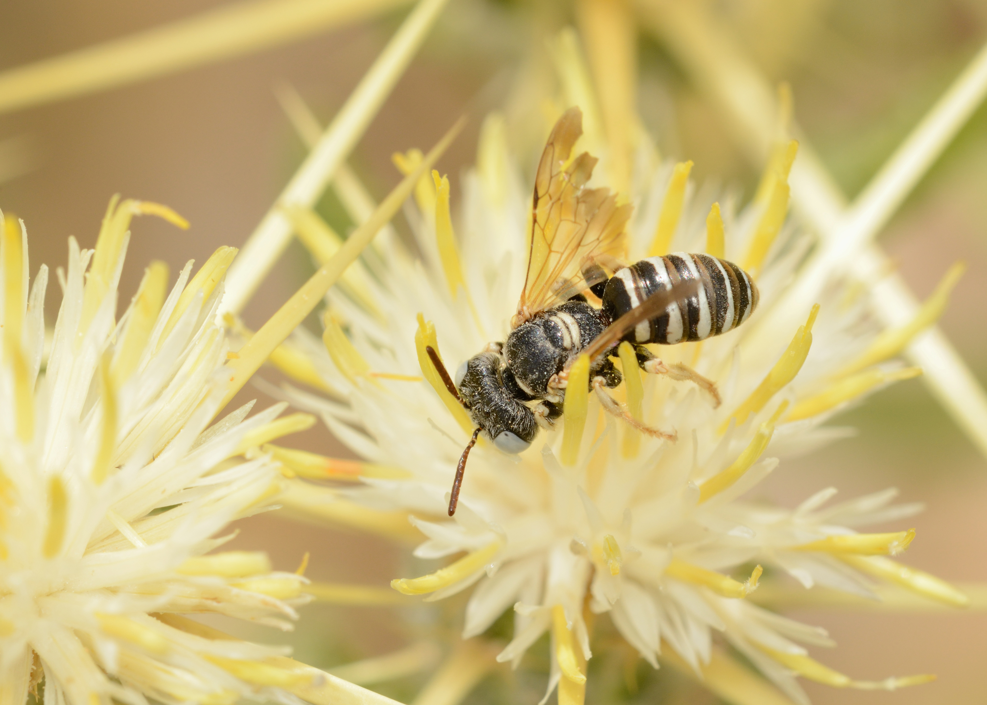 Camptopoeum frontale (Fabricius, 1804), male foraging on Centaurea sp., Negev, Israel, April 24, 2014.